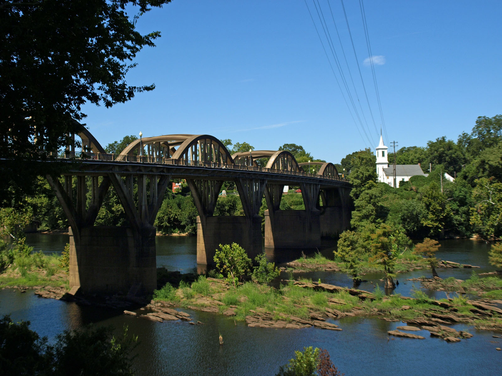 The Bibb Graves Bridge and First Presbyterian Church in Wetumpka, Alabama